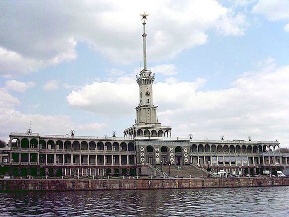 Moscow Northern river terminal (2004)